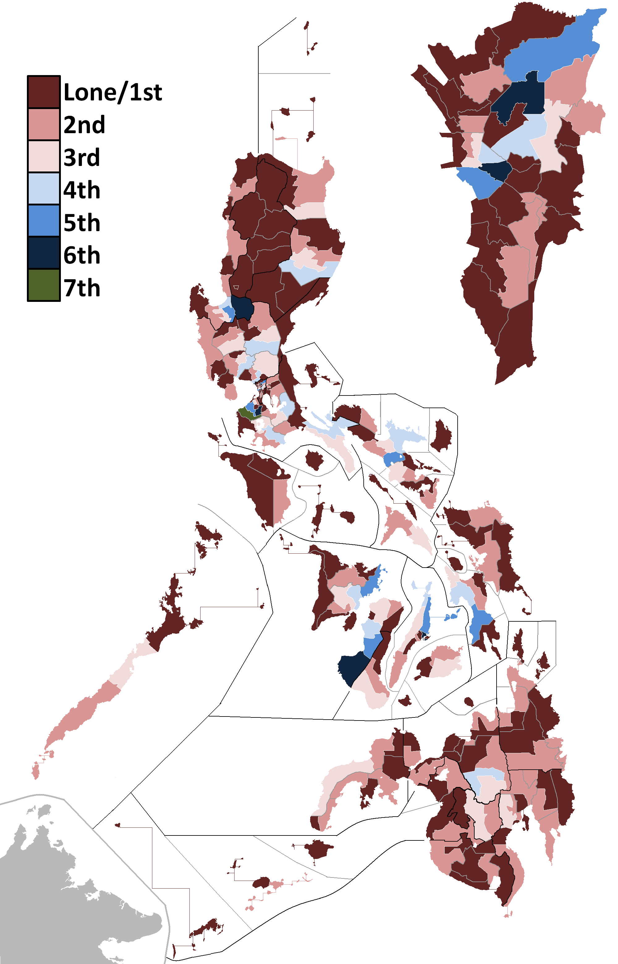 Legislative districts of the Philippines for the 16th Congress of the Philippines.